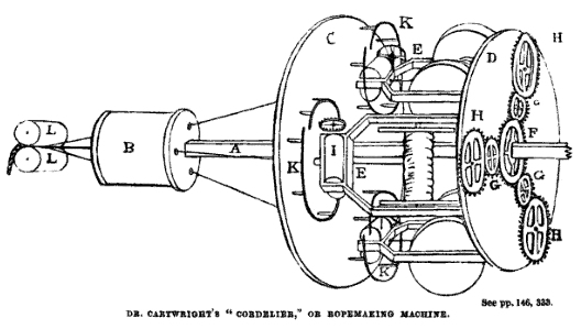 Ropemaking machine of Edmund Cartwright, the English inventor